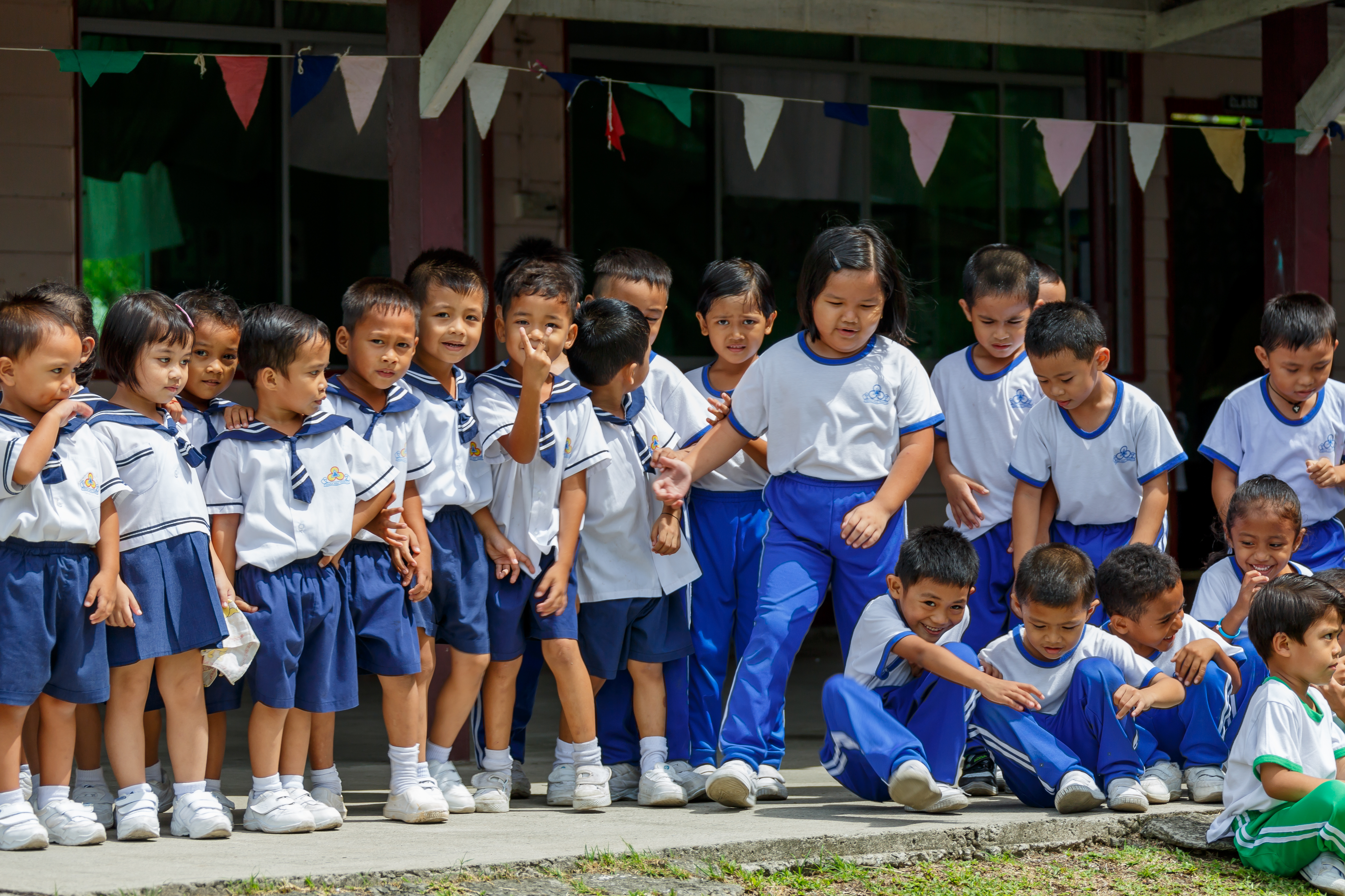 Tawau, Sabah: Tadika Holy Trinity (Holy Trinity Kindergarten)